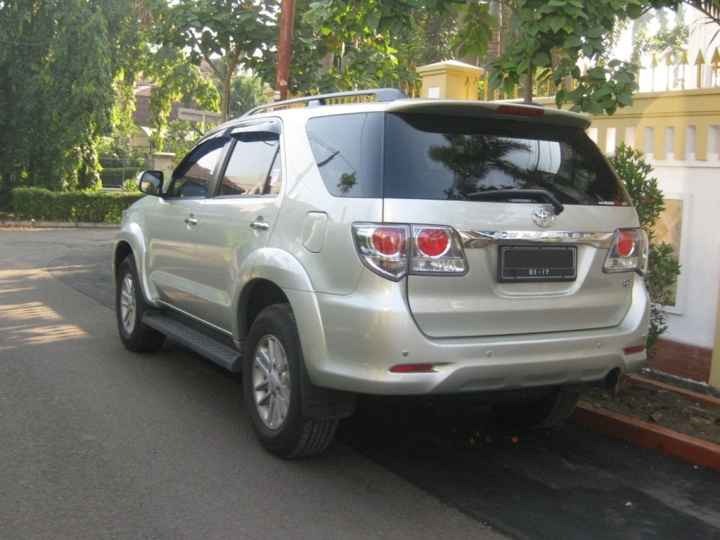 The facelift 2012 model Toyota Fortuner 2.7 G (TGN61), photographed in Jakarta, Indonesia.